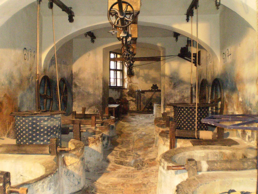 "Vat room" with dyeing vats in the Indigo Dyeing Museum, Pápa, Hungary